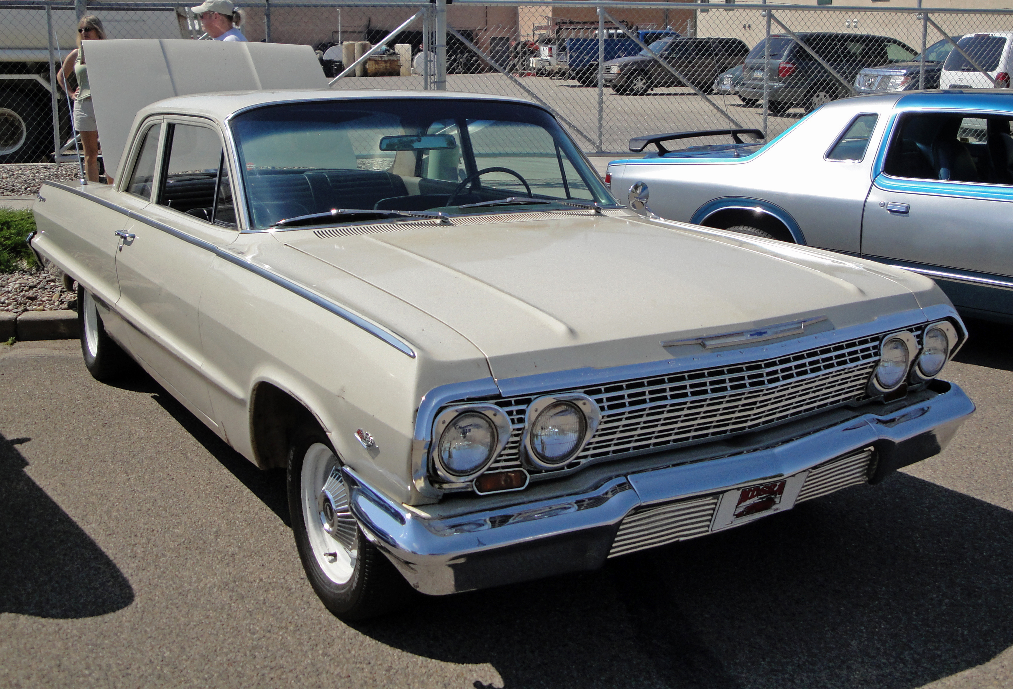 1963 Chevrolet Biscayne two-door sedan in Bismark, North Dakota, June 2012.